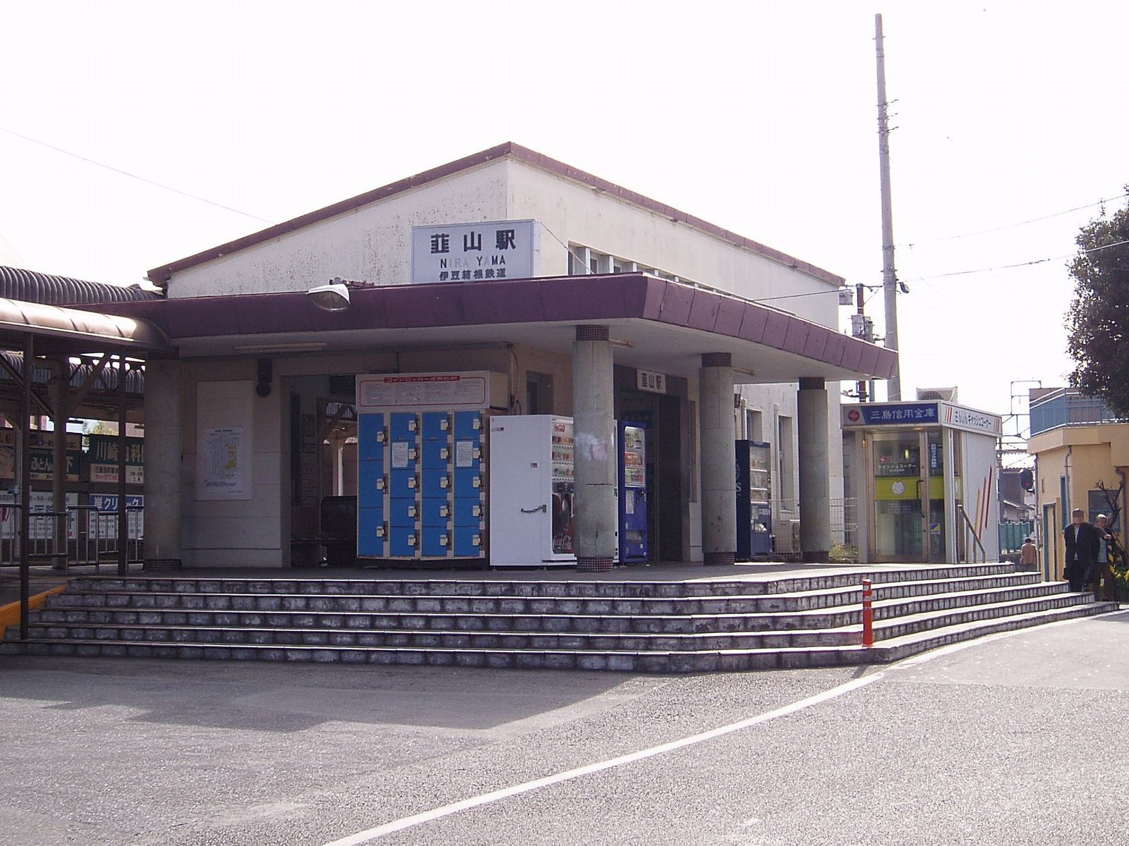 Isuhakone Railway Company, Nirayama Sta. 2007.11.26 Photo by Cassiopeia_sweet.